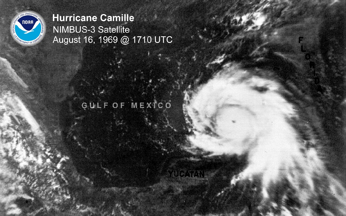 Hurricane Camille in the Gulf.